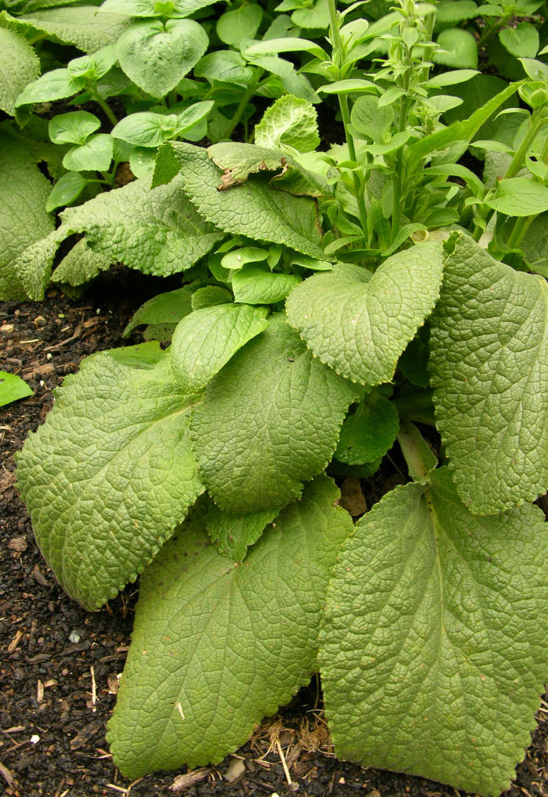 Picture of the leaves of the Digitalis purpurea 'Primrose Carousel' plant. Photo taken at the Chanticleer Garden where it was identified.